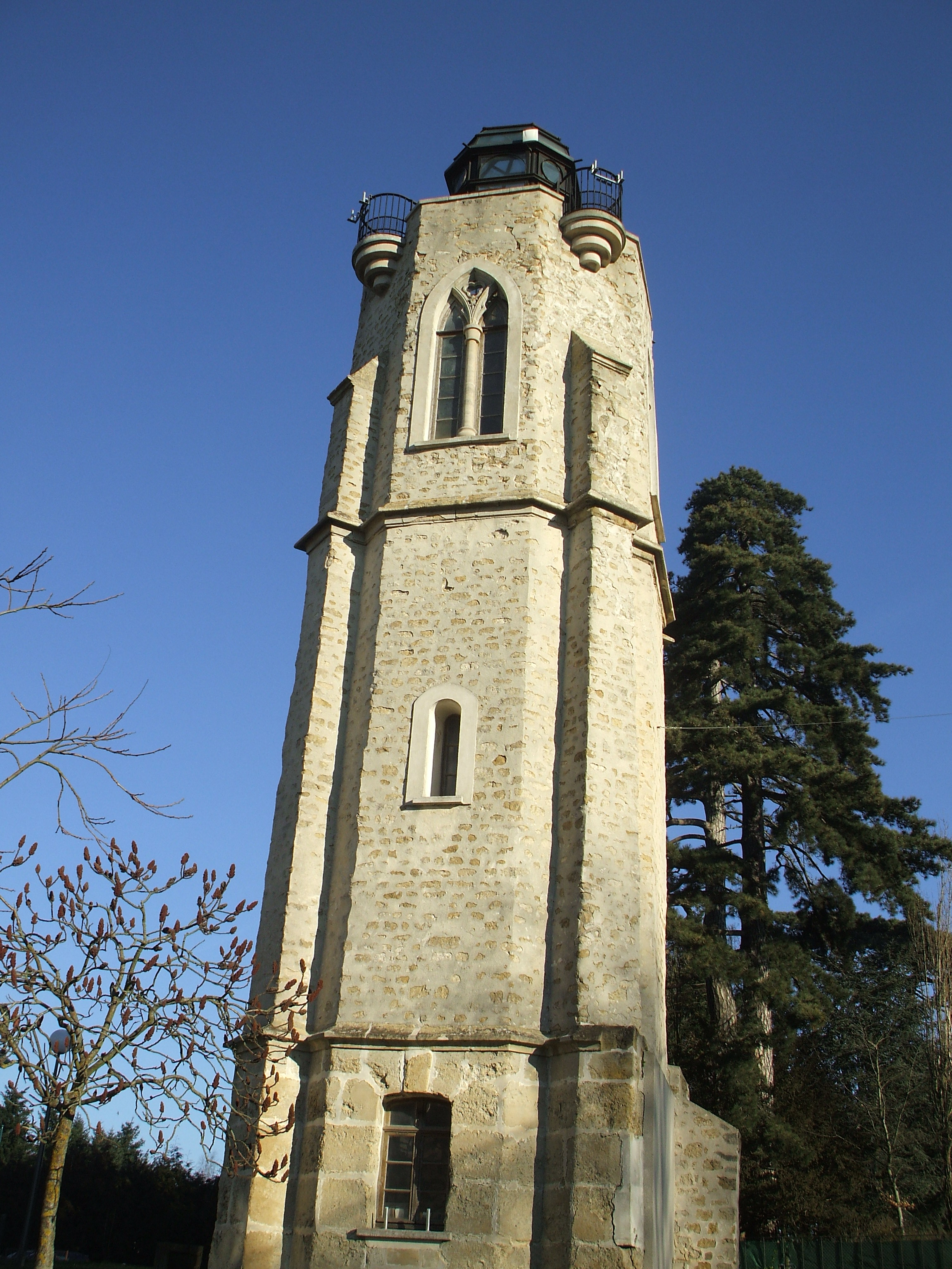 tower of saint martin du tertre